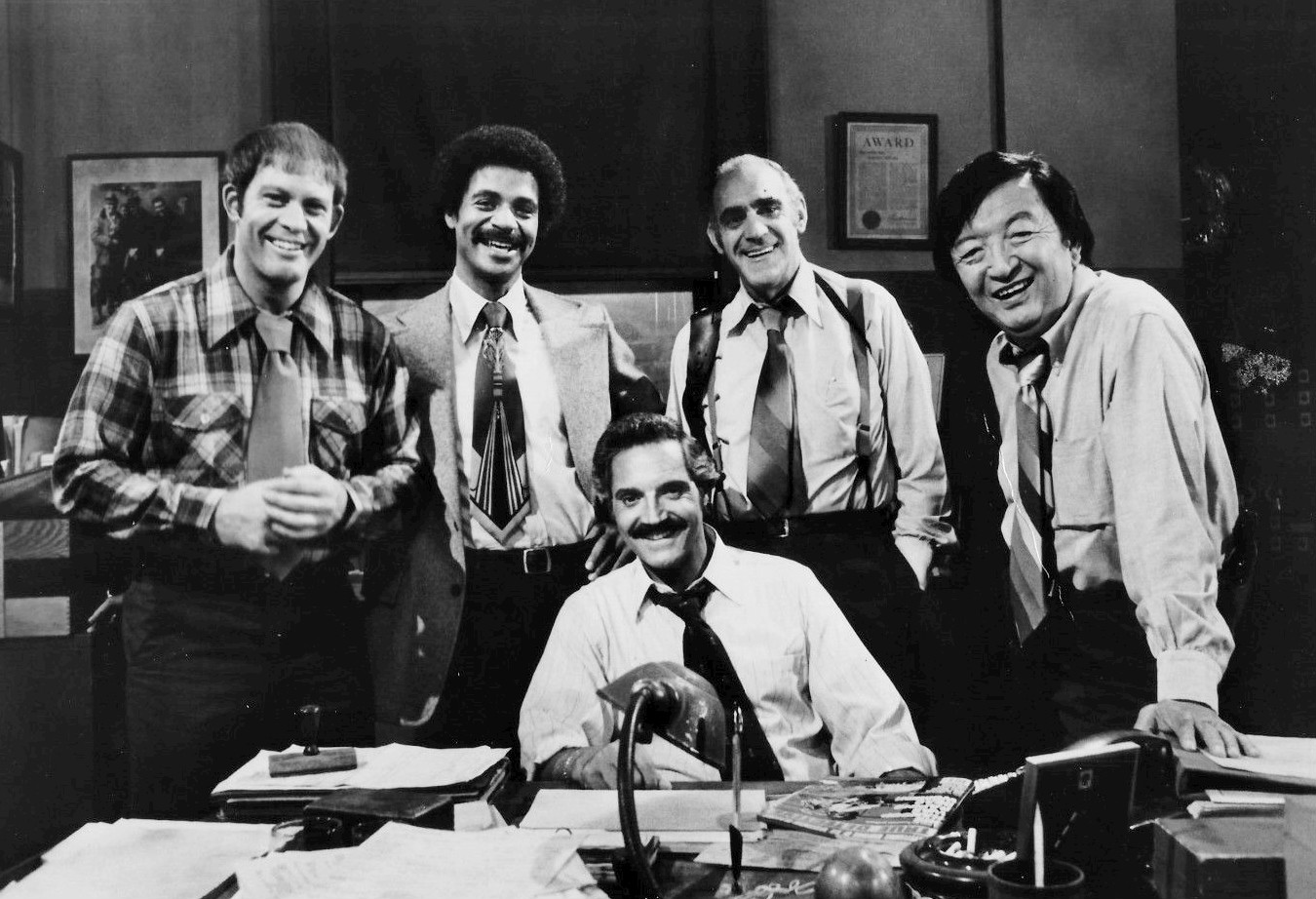 1977 cast photo from the television series Barney Miller. From left: Max Gail ("Wojo" Wojciehowicz}, Ron Glass (Ron Harris}, Abe Vigoda (Phil Fish), Jack Soo (Nick Yemana). Seated is Hal Linden (Barney Miller).